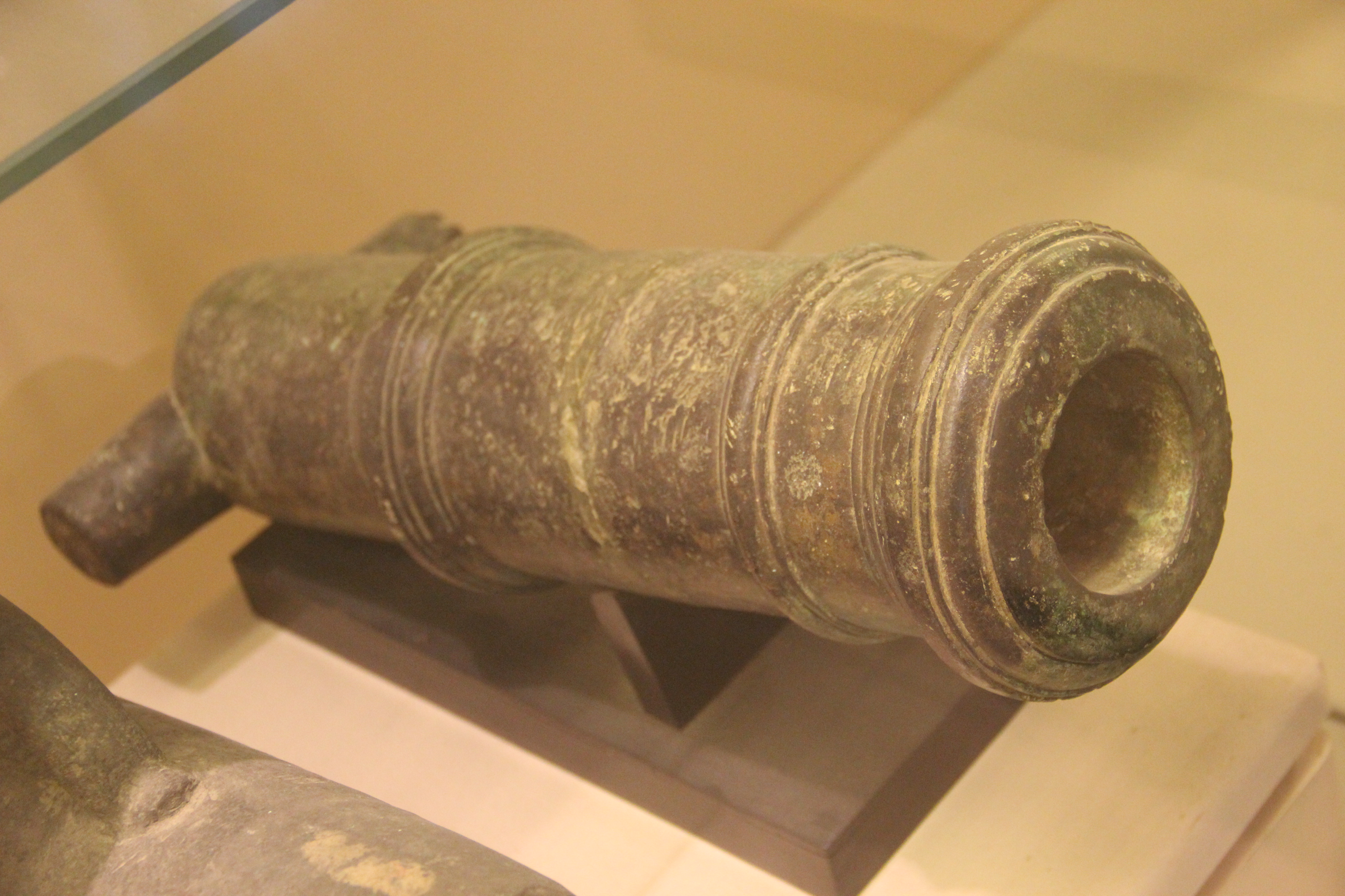 Post Tran Dynasty Gallery, National Museum of Vietnamese History, Hanoi. Complete indexed photo collection at .